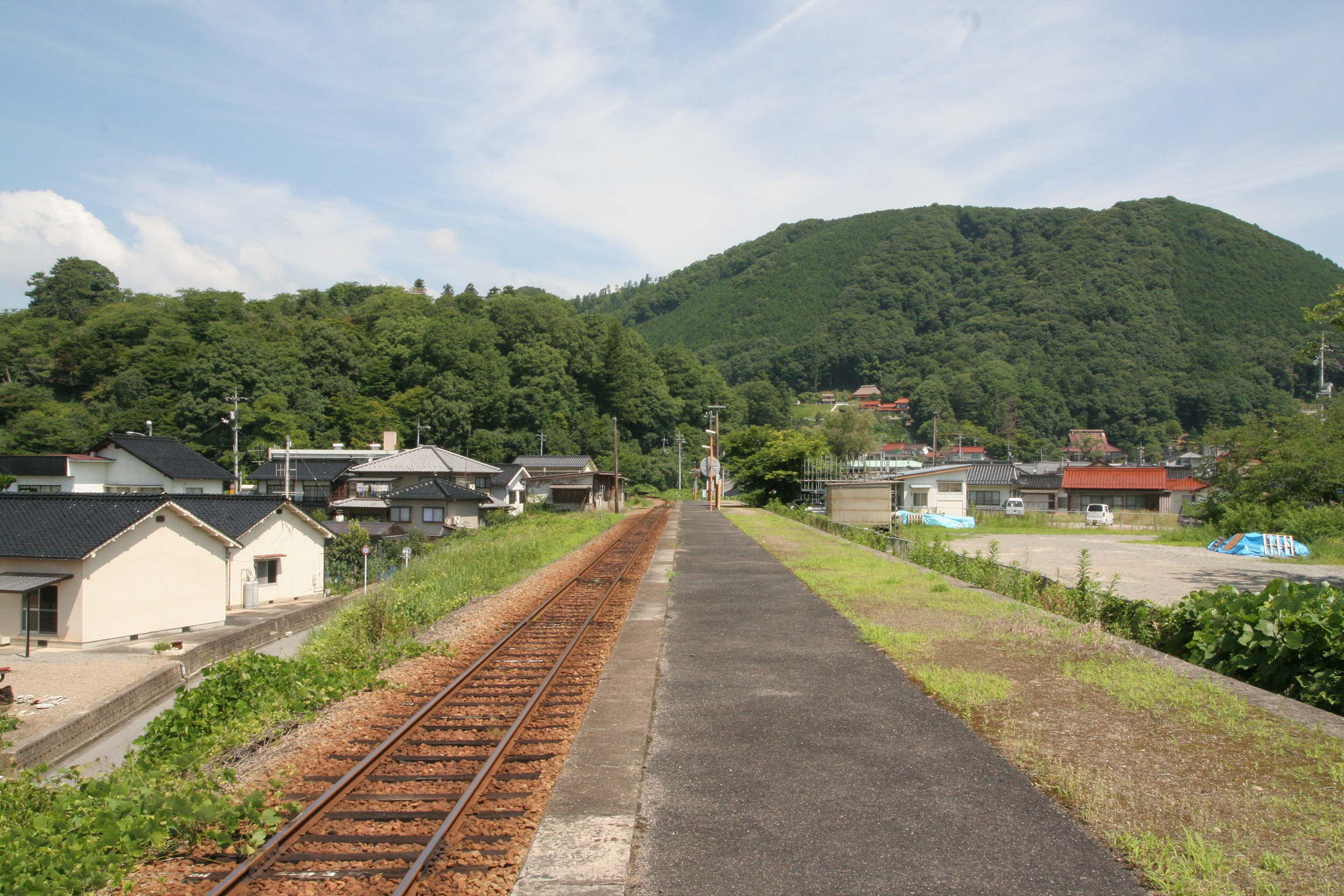 West Japan Railway Sankō Line Ozekiyama Station enclosure